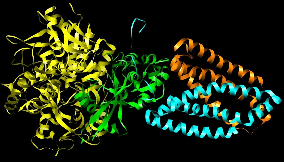 Succinate Dehydrogenase is an enzyme complex bound to the inner mitochondrial membrane of mammalian and many bacterial cells. It is the only enzyme that participates in both the citric acid cycle and the mammalian, mitochondrial, and bacterial electron transport chain.[1] SdhA is yellow, SdhB is lime, SdhC is aqua, and SdhD is orange.